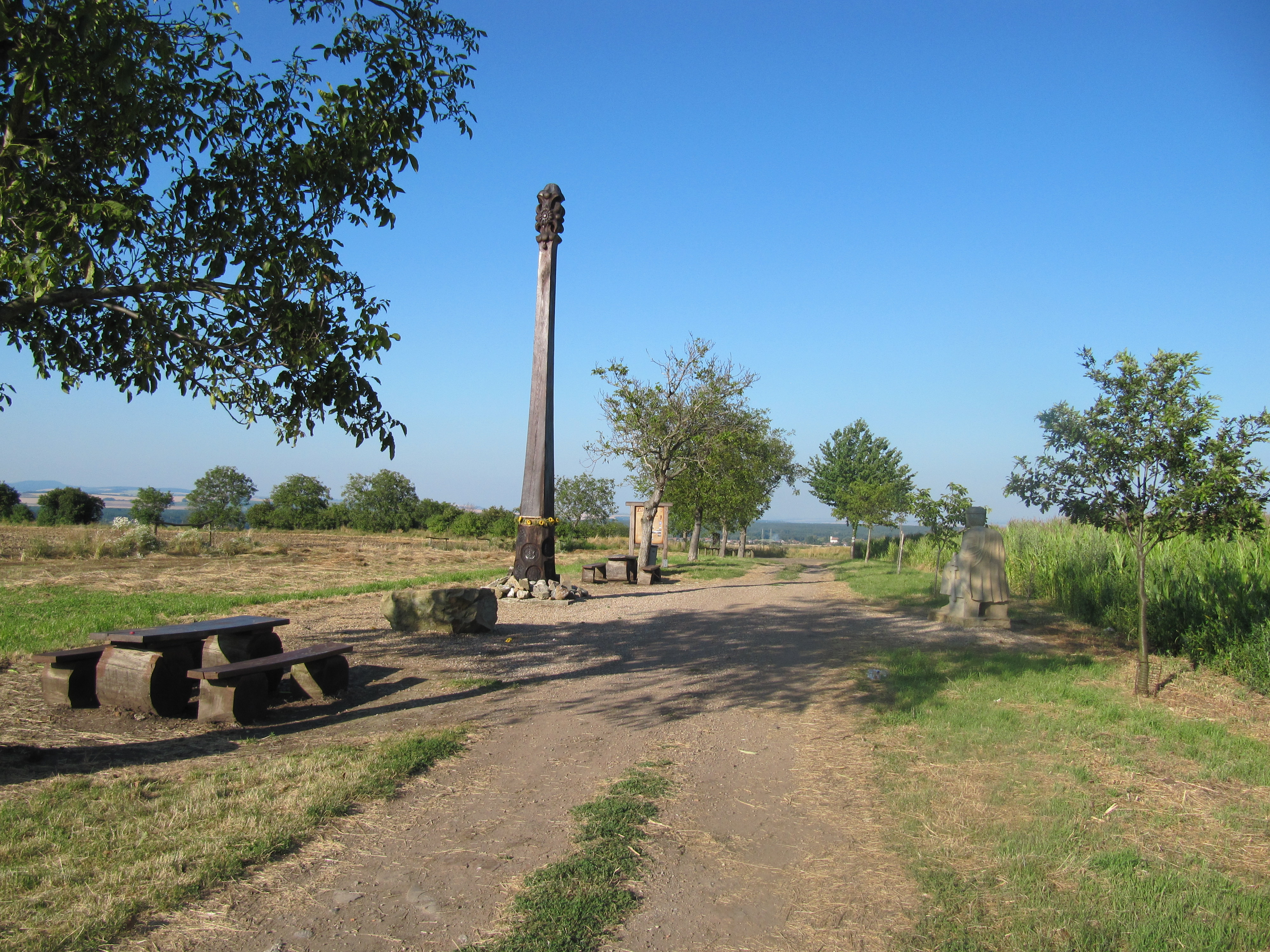 Hill Náklo near Dubňany in Hodonín District, Czech Republic.